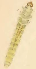 Stainton’s Natural History of the Tineina (1855–1873): Phyllonorycter comparella larva